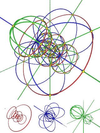 Hypersphere parallel meridian and hypermeridian